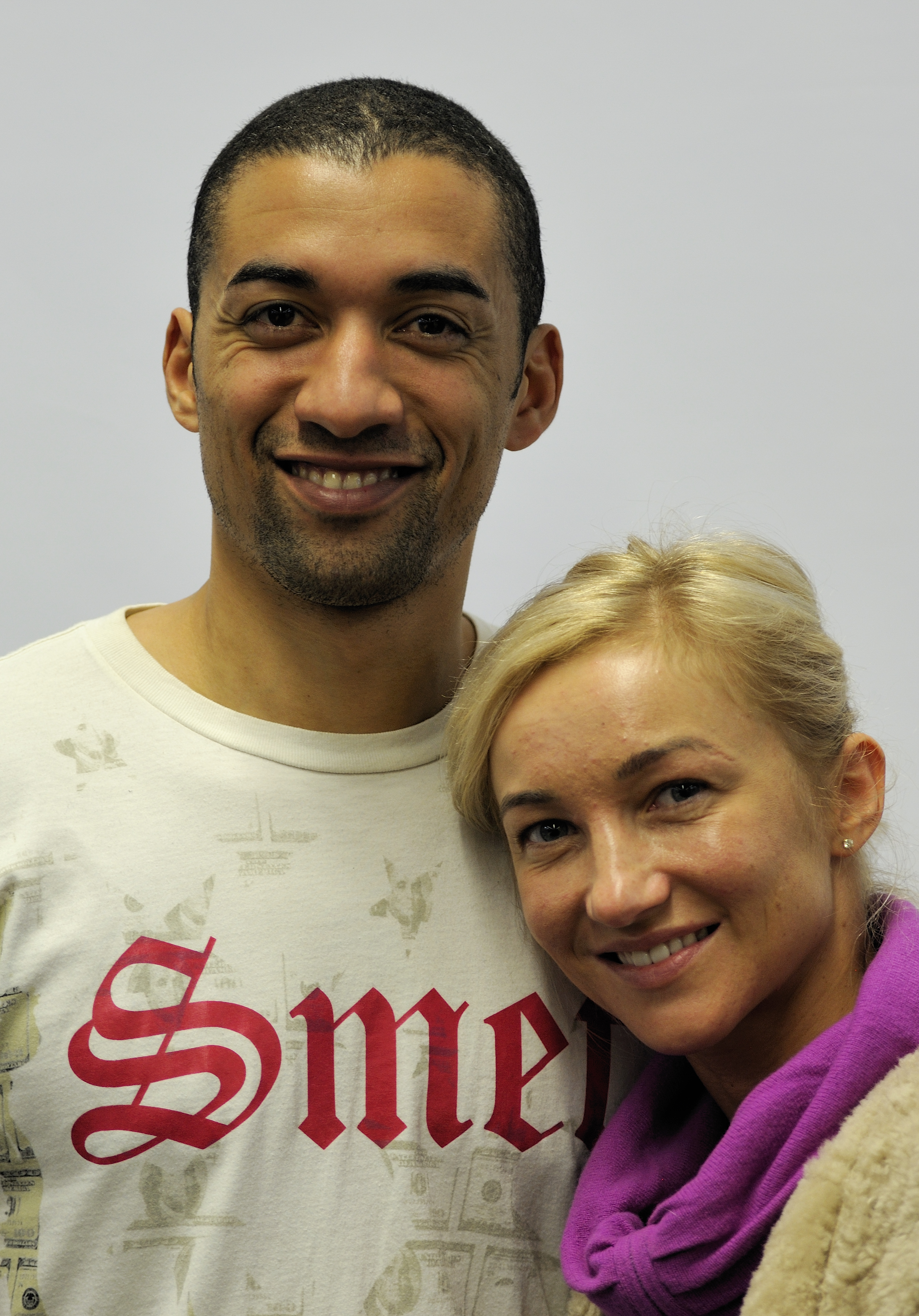 Picture taken in Erding during the investiture of the 2014 German olympic team (project). Aljona Savchenko and Robin Szolkowy.